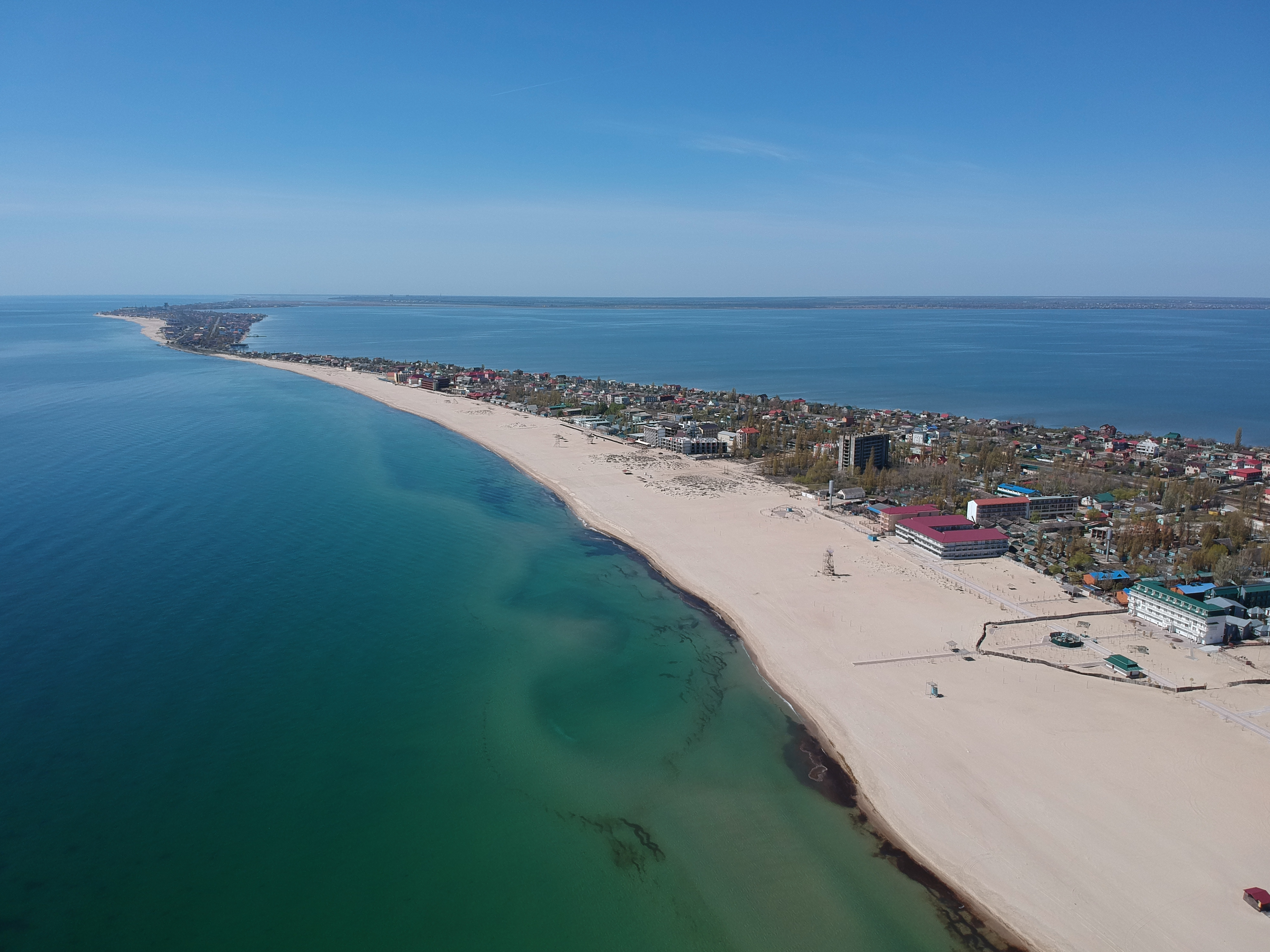 Zatoka, aerial view